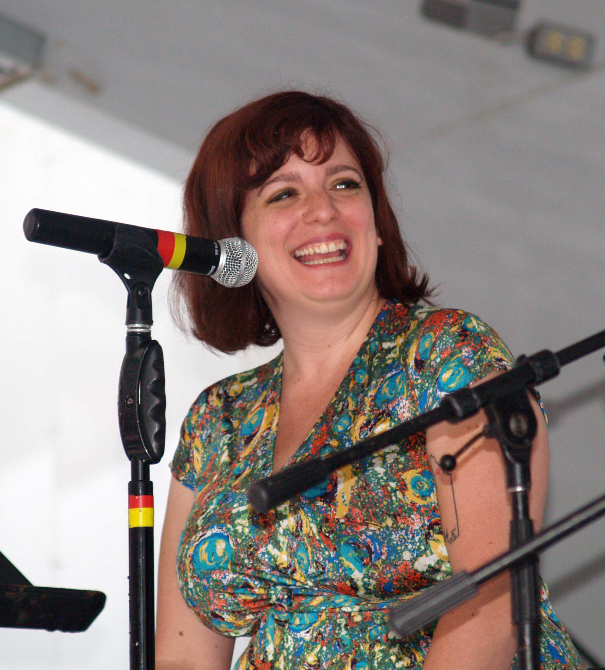 Comedian and talk show host Sara Benincasa, moderating the "Comedians as Authors" panel at the the 2014 Brooklyn Book Festival. This photo was created by Luigi Novi. It is not in the public domain, and use of this file outside of the licensing terms is a copyright violation.